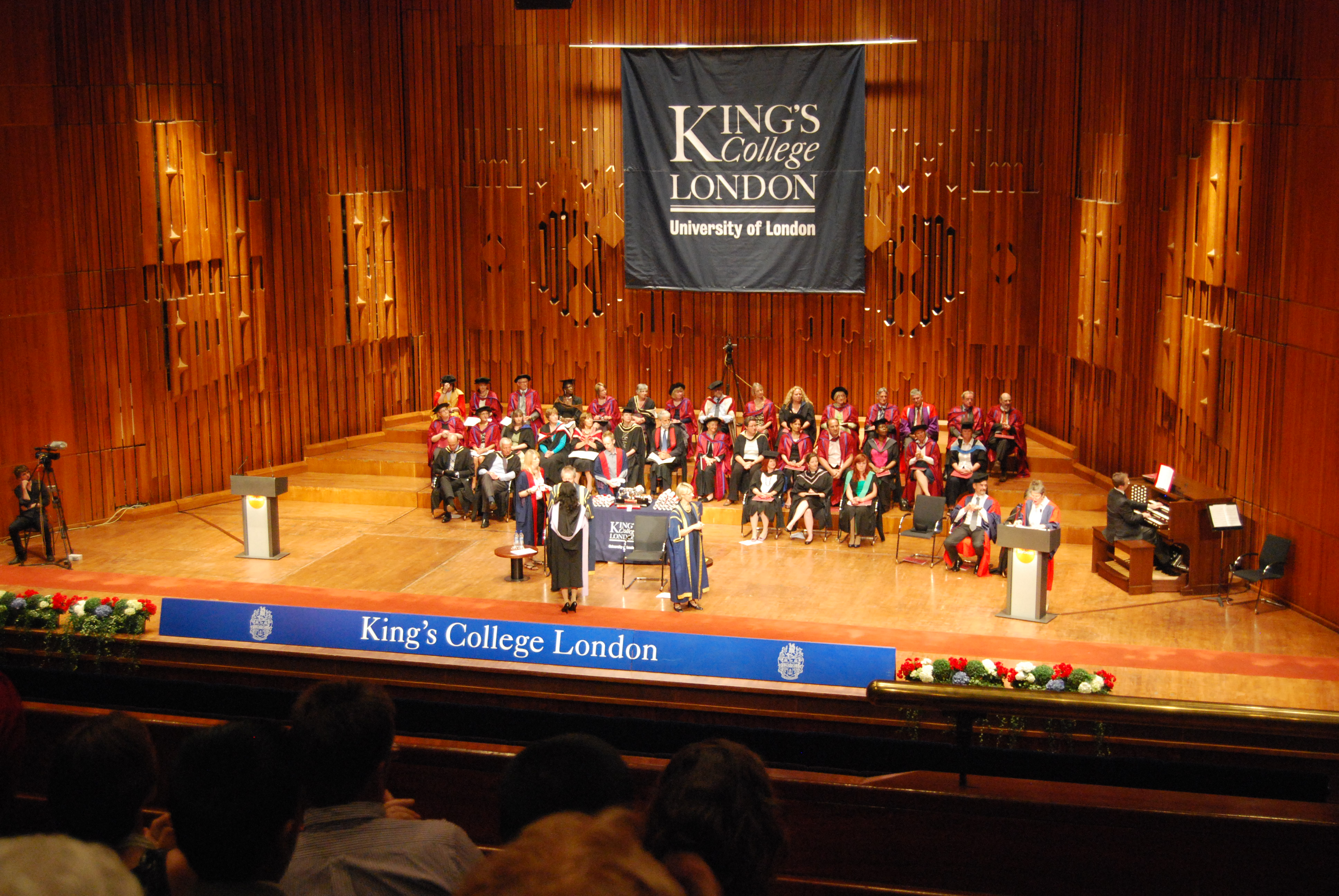 KCL Graduation Barbican 2010a